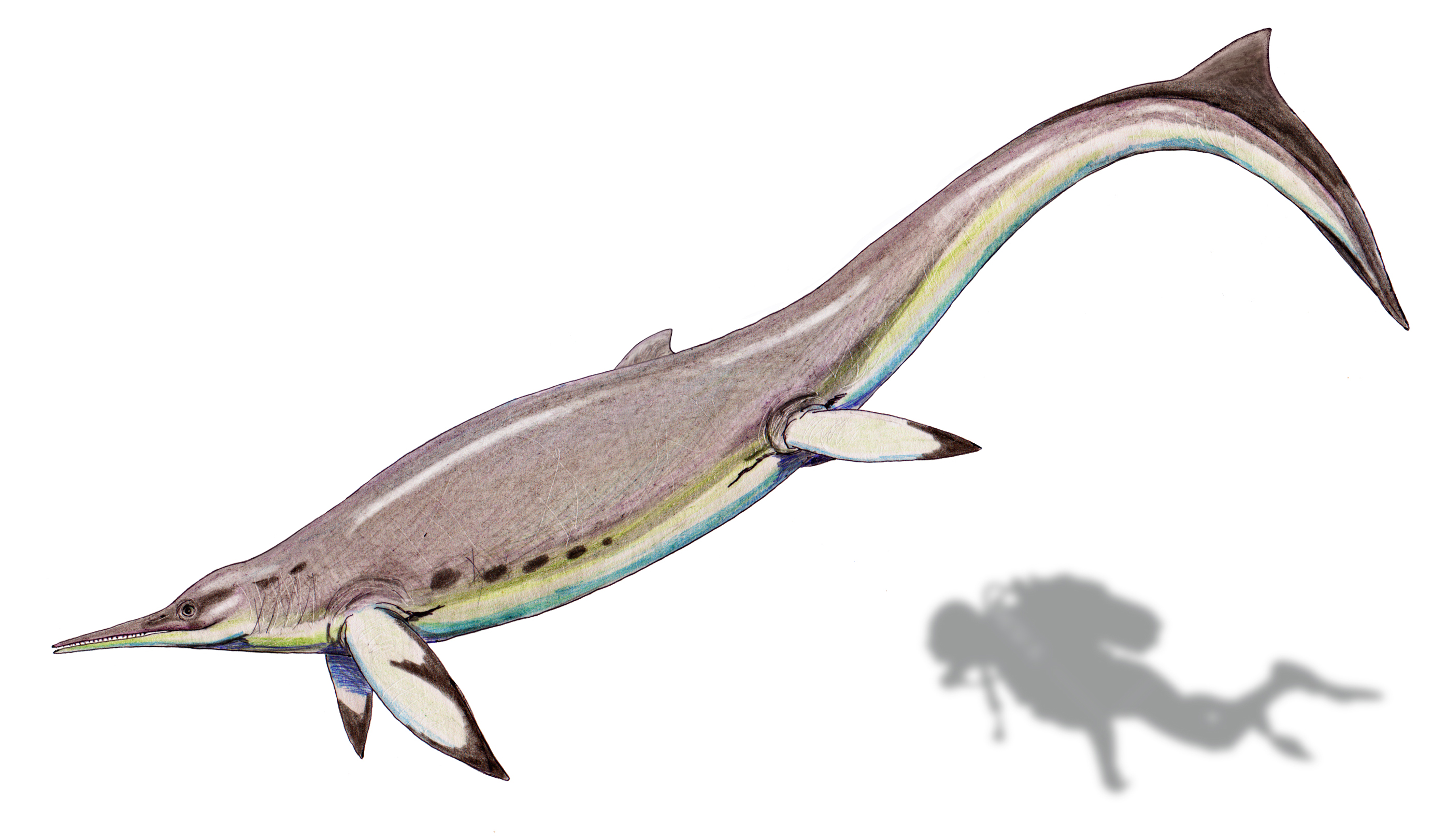 Besanosaurus leptorhynchus, primitive ichthyosaur from Midlle Triassic of Italy